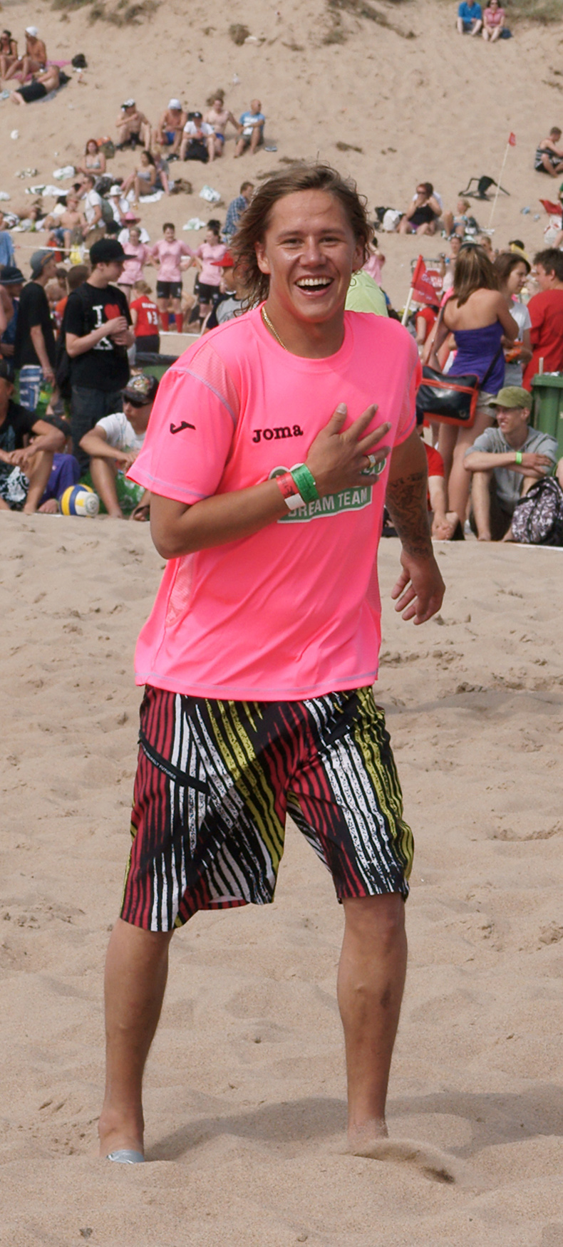 Heikki Sorsa, Finnish snowboarder, playing beach soccer in Yyteri beachfutis.